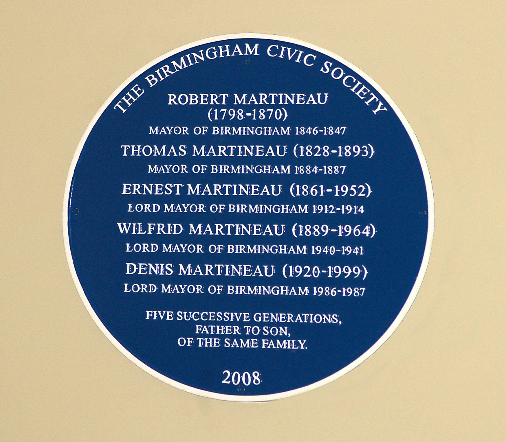 Blue plaque in Birmingham Council House, commemorating five generations of the Martinweau Family to serve as Mayor or Lord Mayor of Birmingham, England.